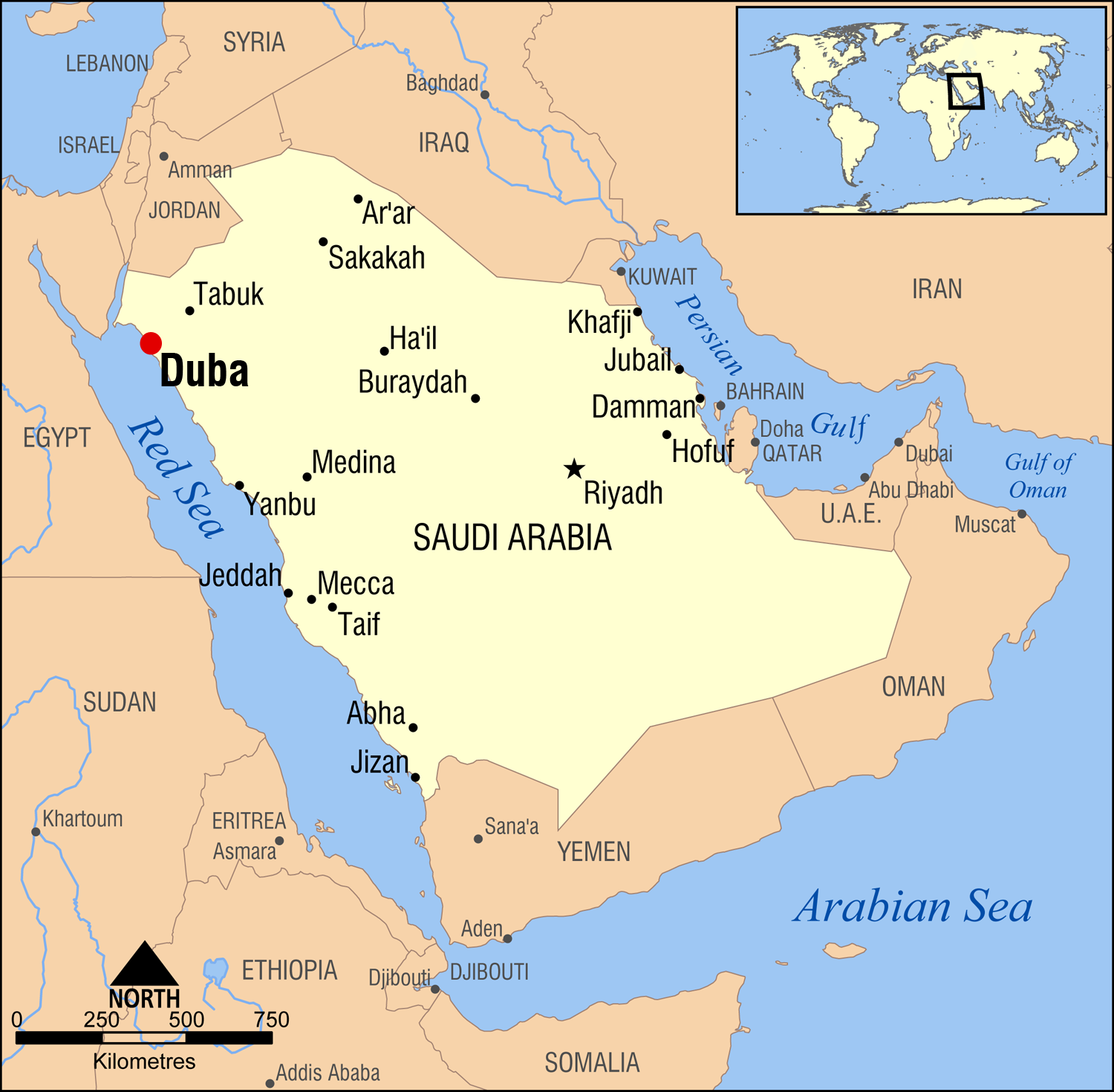 Locator map of Duba, Saudi Arabia. Created by NormanEinstein, May 5, 2006.